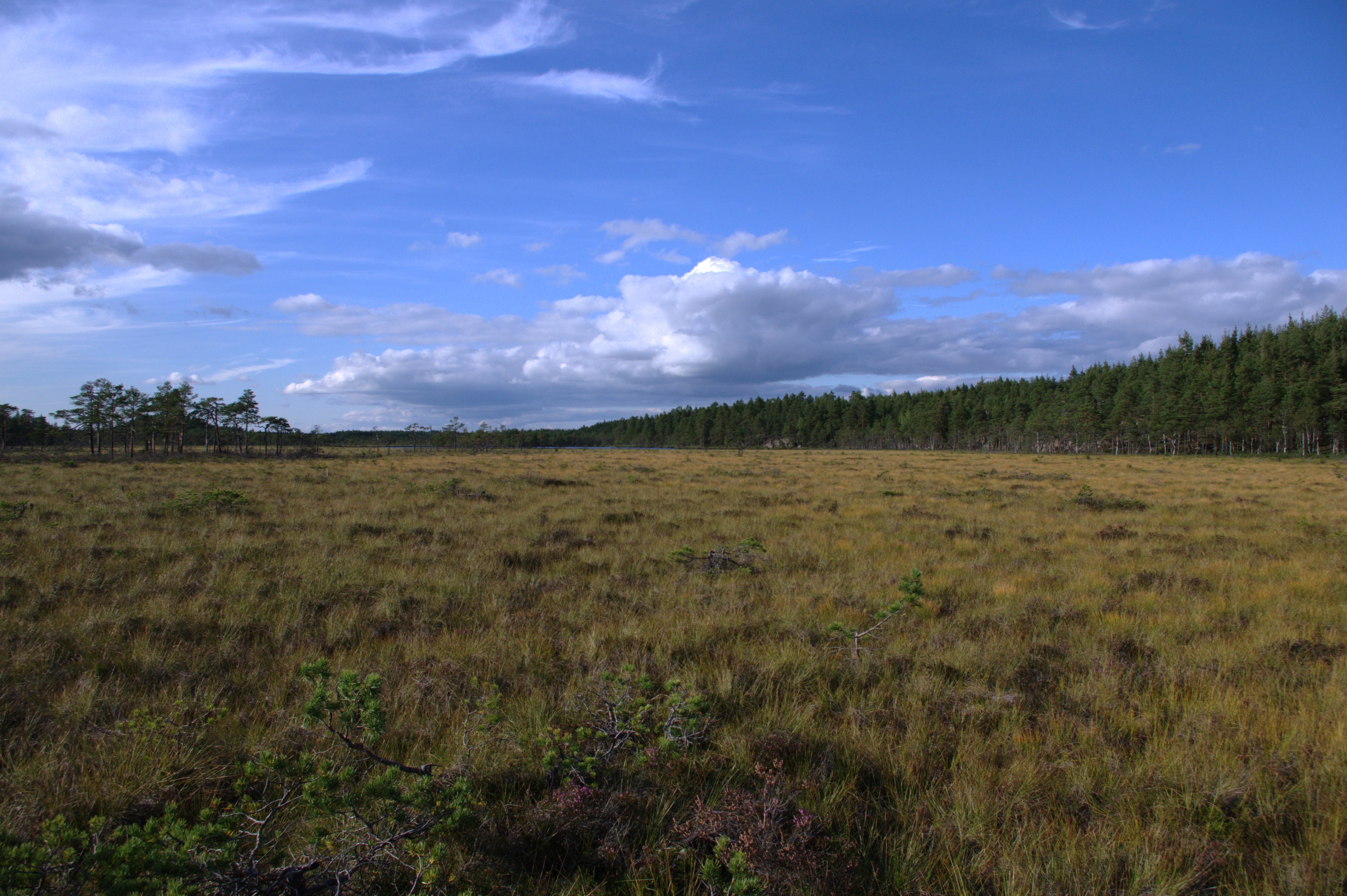 Fjällmossen nature reserve, Norrköping, Sweden.